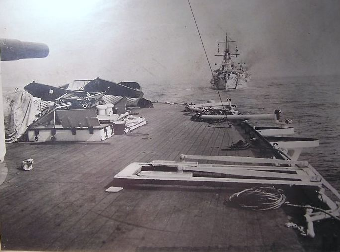 Original photoimage shows aft of Russian Imperial Navy battleship Petropavlovsk, made on the ship's aft port side. On the left corner of the picture shown ship's dog Manza (dead with the ship). Behind Petropavlovsk shown Russian Imperial Navy ships Poltava, Sevastopol' & Peresvet